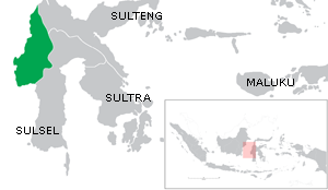 Location of West Sulawesi Province on Sulawesi Island, Indonesia